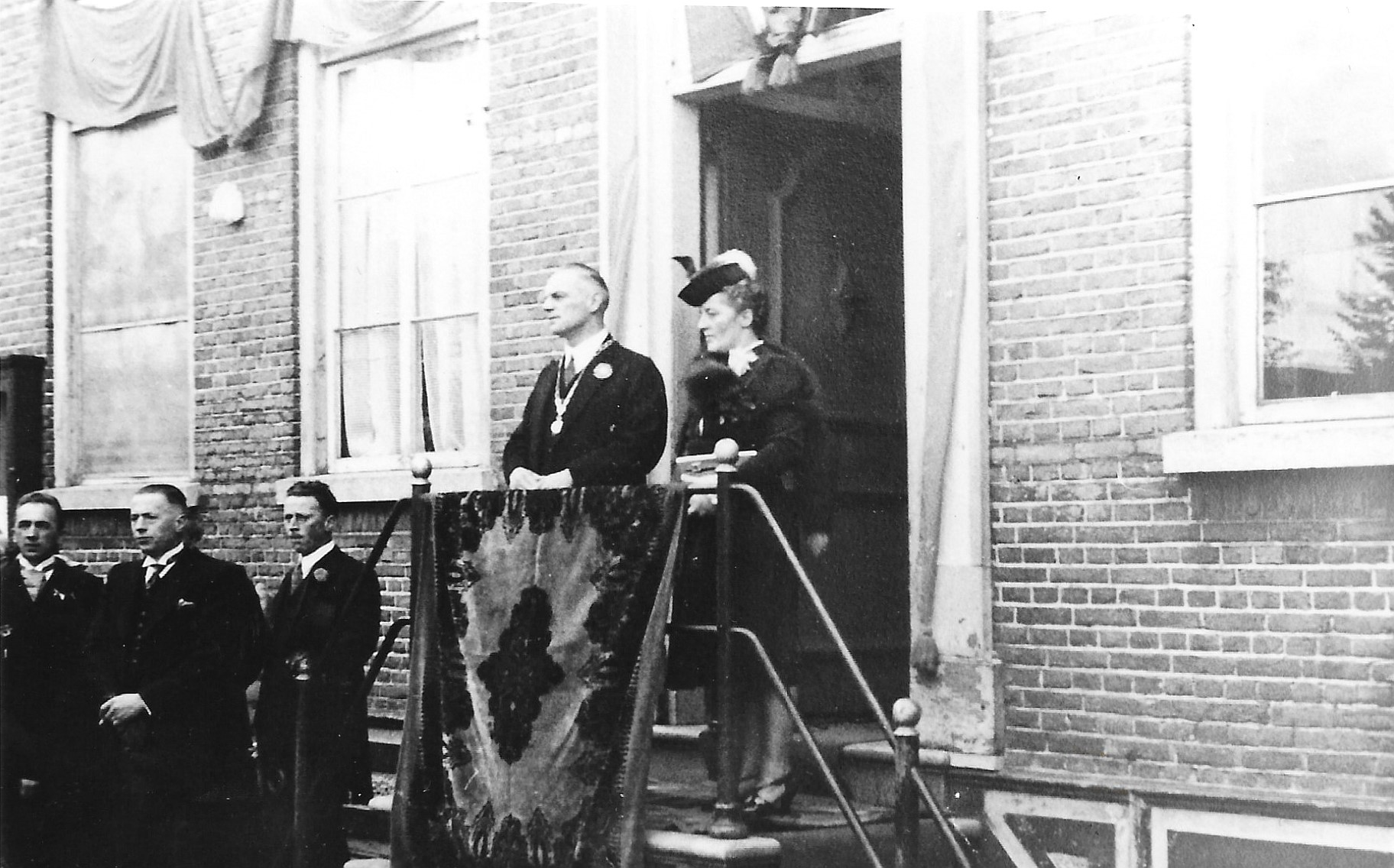 Inauguration of Theodoor Mostermans as mayor of Lieshout